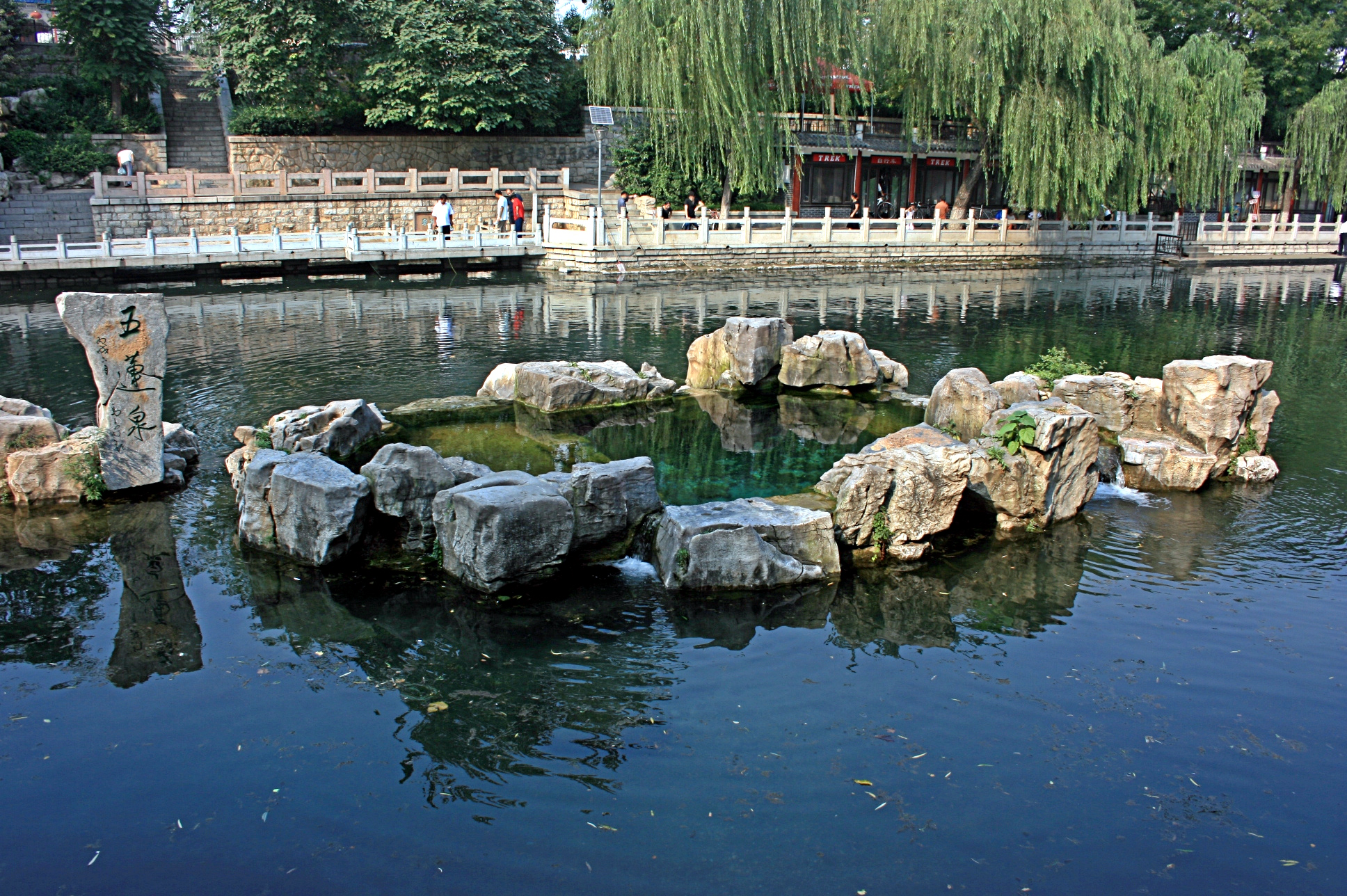 Photograph of the Five Lotus Spring, Jinan, Shandong, China.